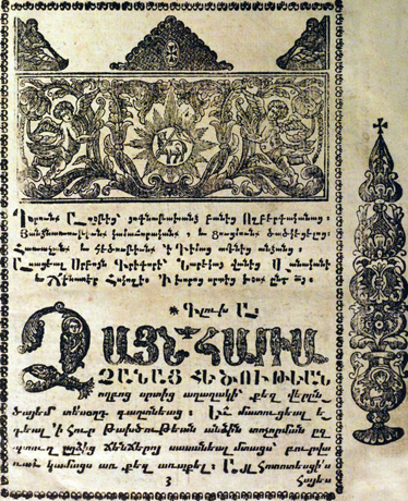 r Narekatsi, "Prayer Book", Constantinople